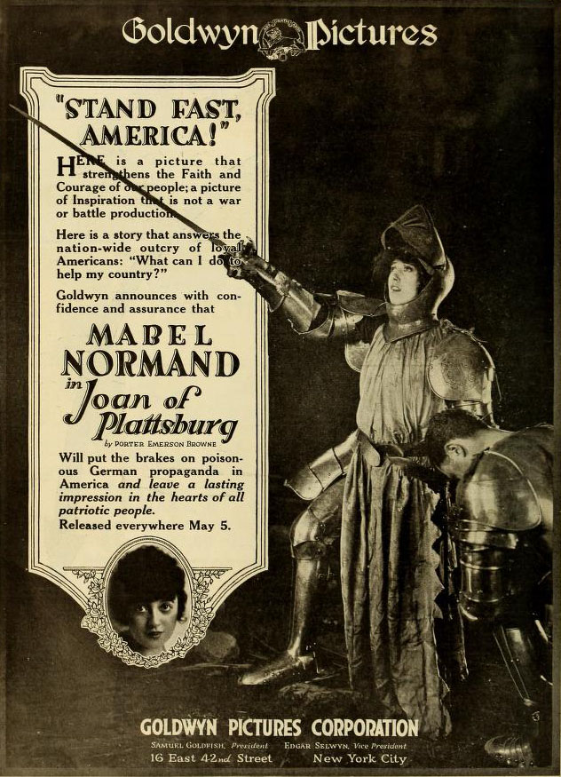 Advertisement in Moving Picture World, May 1918 for the American comedy drama film Joan of Plattsburg (1918) with Mabel Normand.